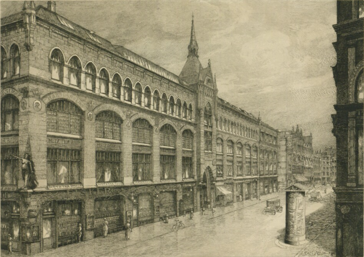 Volmerhus in Copenhagen, Denmark